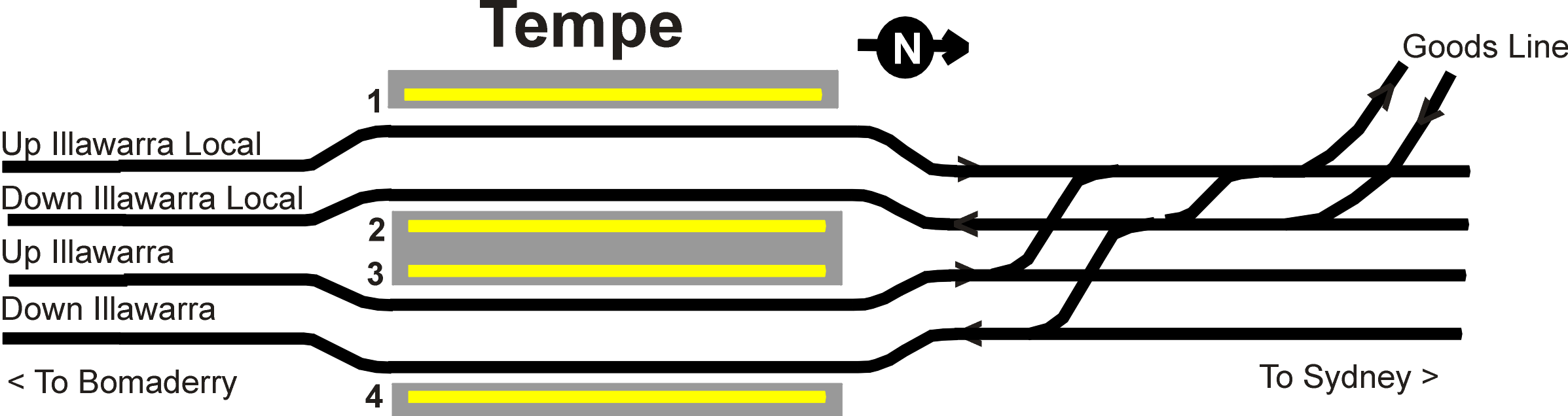 Track arrangement at Tempe railway station, Sydney